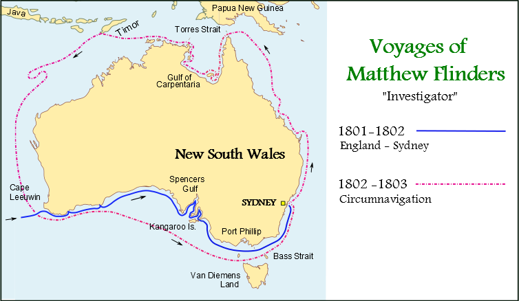 Map of the voyages of Matthew Flinders in the Investigator. Drawn using Inkscape. Base map AUS_locator_map.svg by user:Yarl.* Adapted from illustrations in Australian Navigators by Robert Tiley ISBN 0731811186